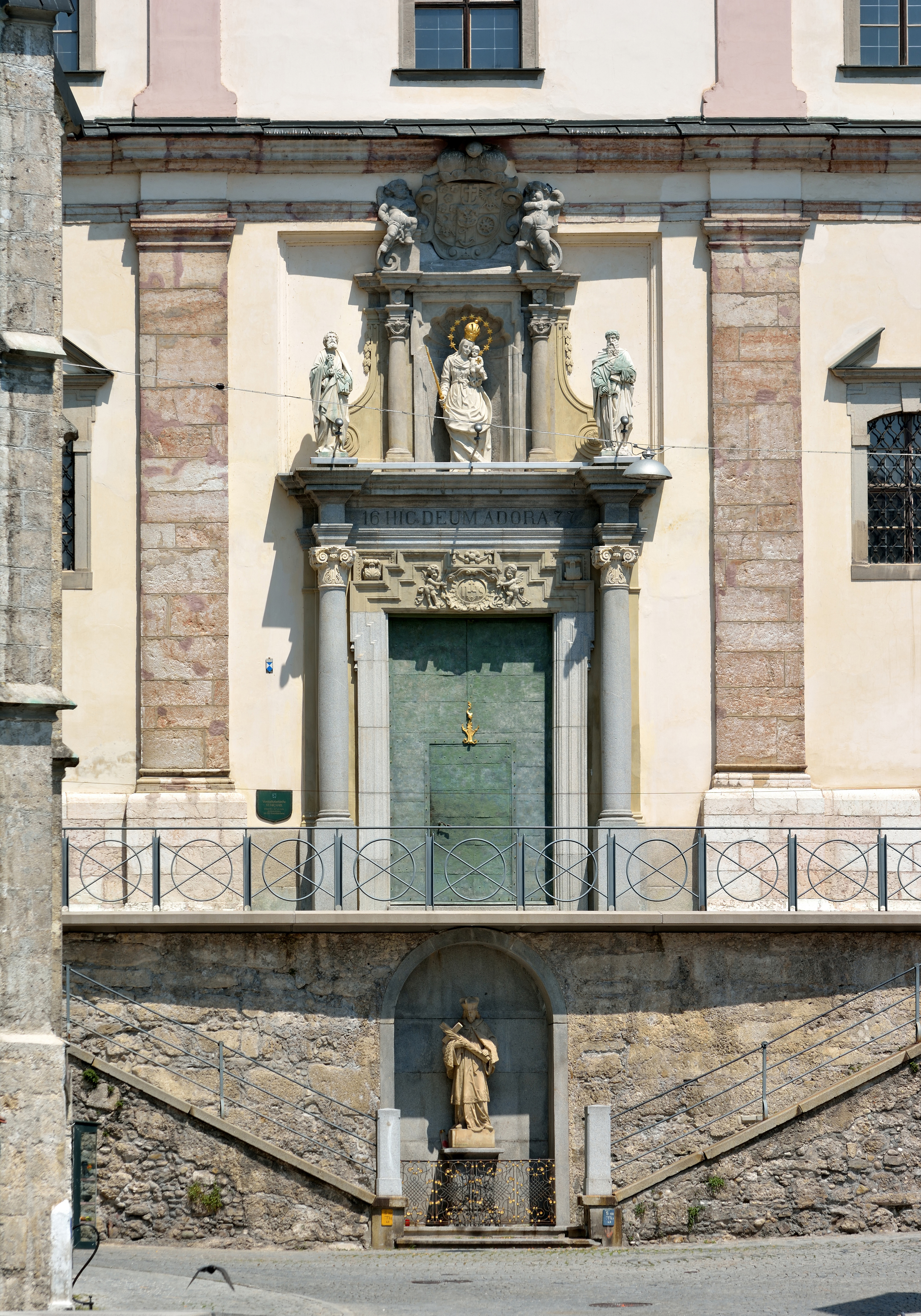 Portal (1677) of Michaeler church, Steyr, Upper Austria